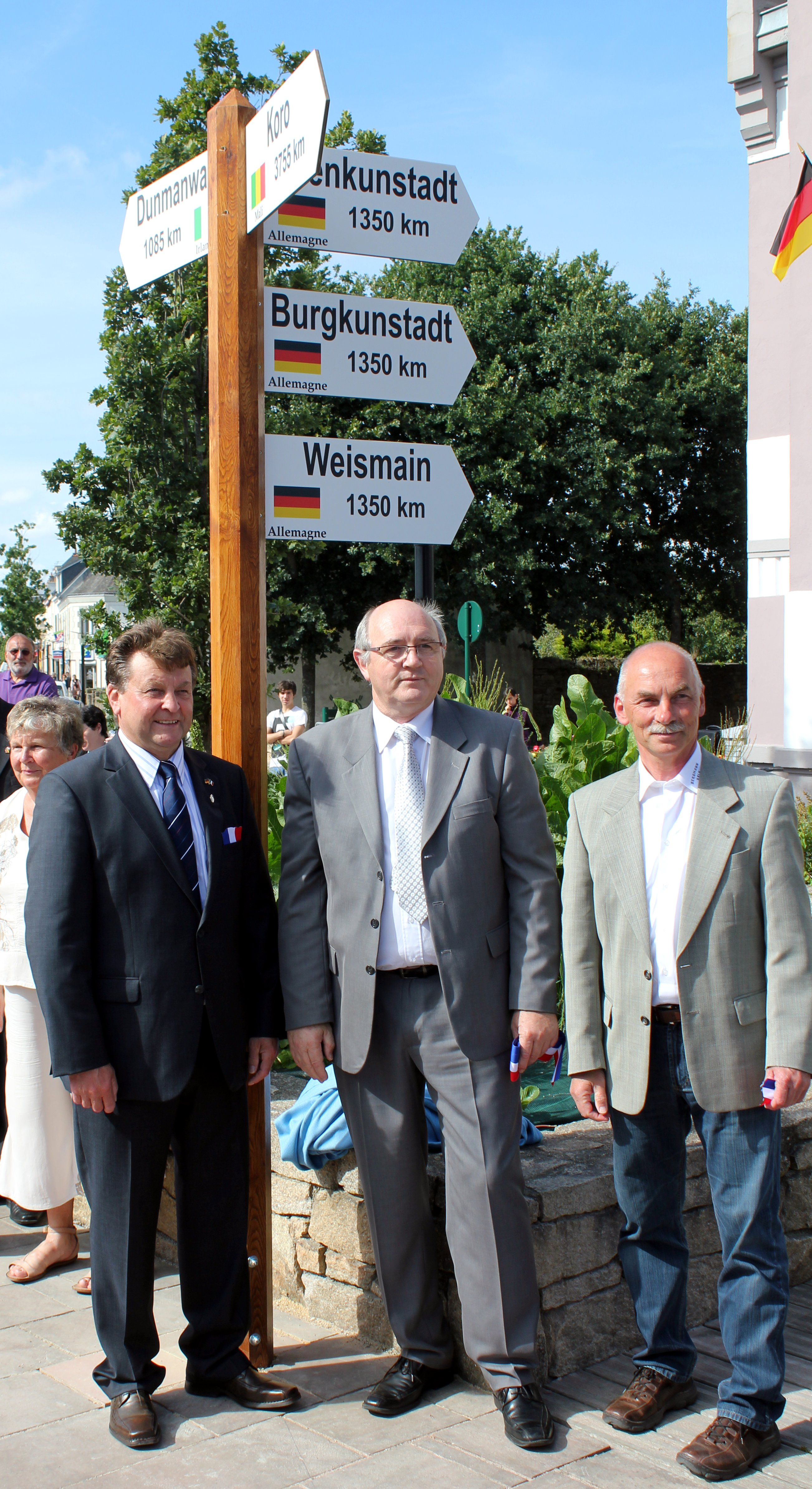 Dedication of the Twin-Towns-Tree in Quéven. From left to right: Heinz Petterich (1. Mayor of Burgkunstadt), Marc Cozilis (1. Mayor of Quéven) und Reinhard Huber (1. Chef of the Deutsch-Französischen-Gesellschaft Obermain).